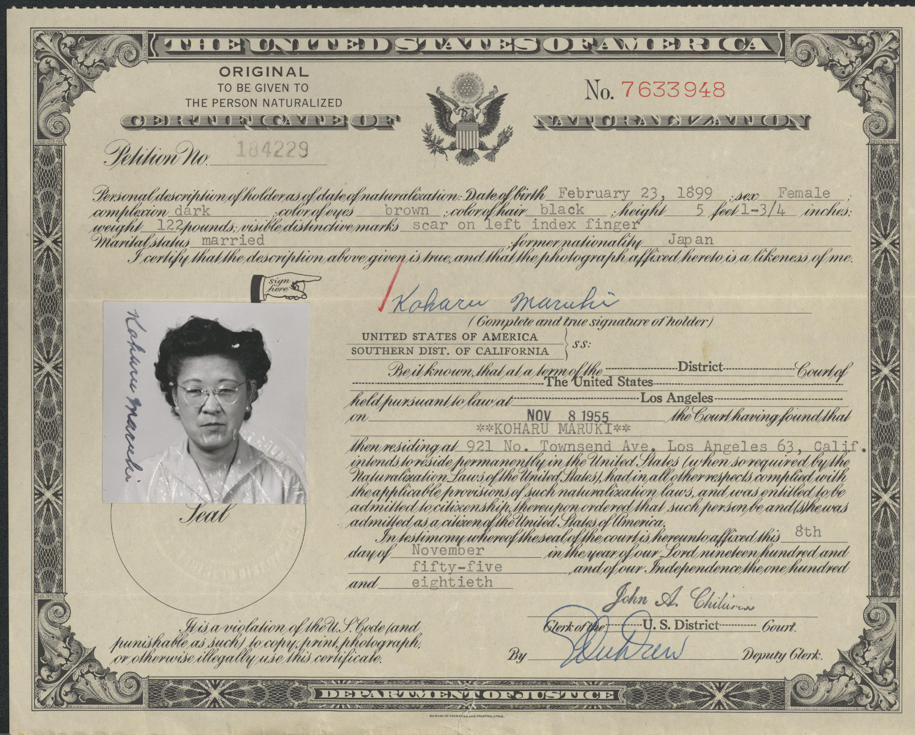 Koharu Maruki's naturalization certificate.